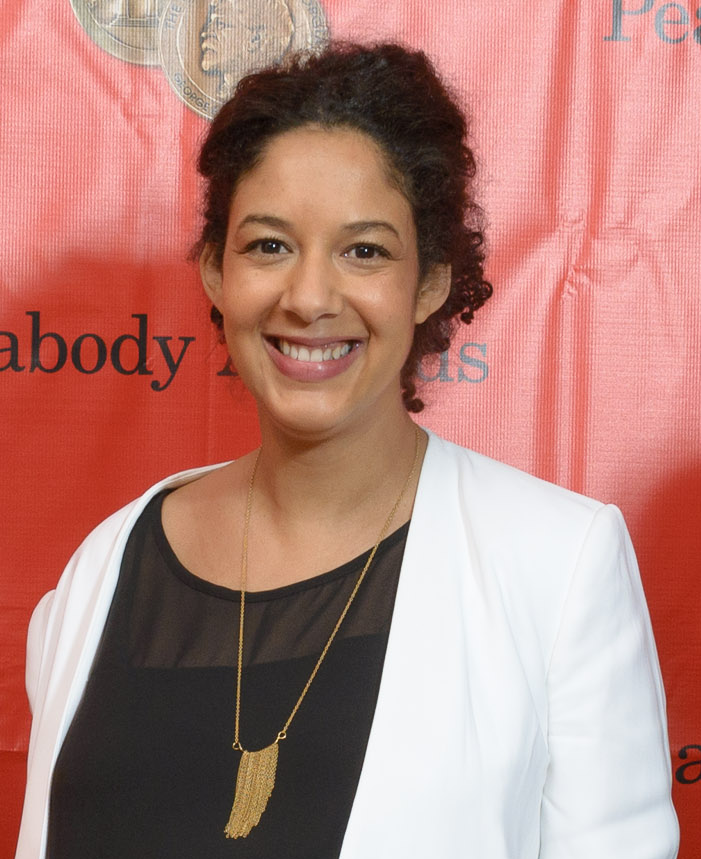 Linda Lutton, Ben Calhoun, Julie Snyder, Robyn Semien and Alex Kotlowitz from "This American Life: Harper High School" at the 73rd Annual Peabody Awards.